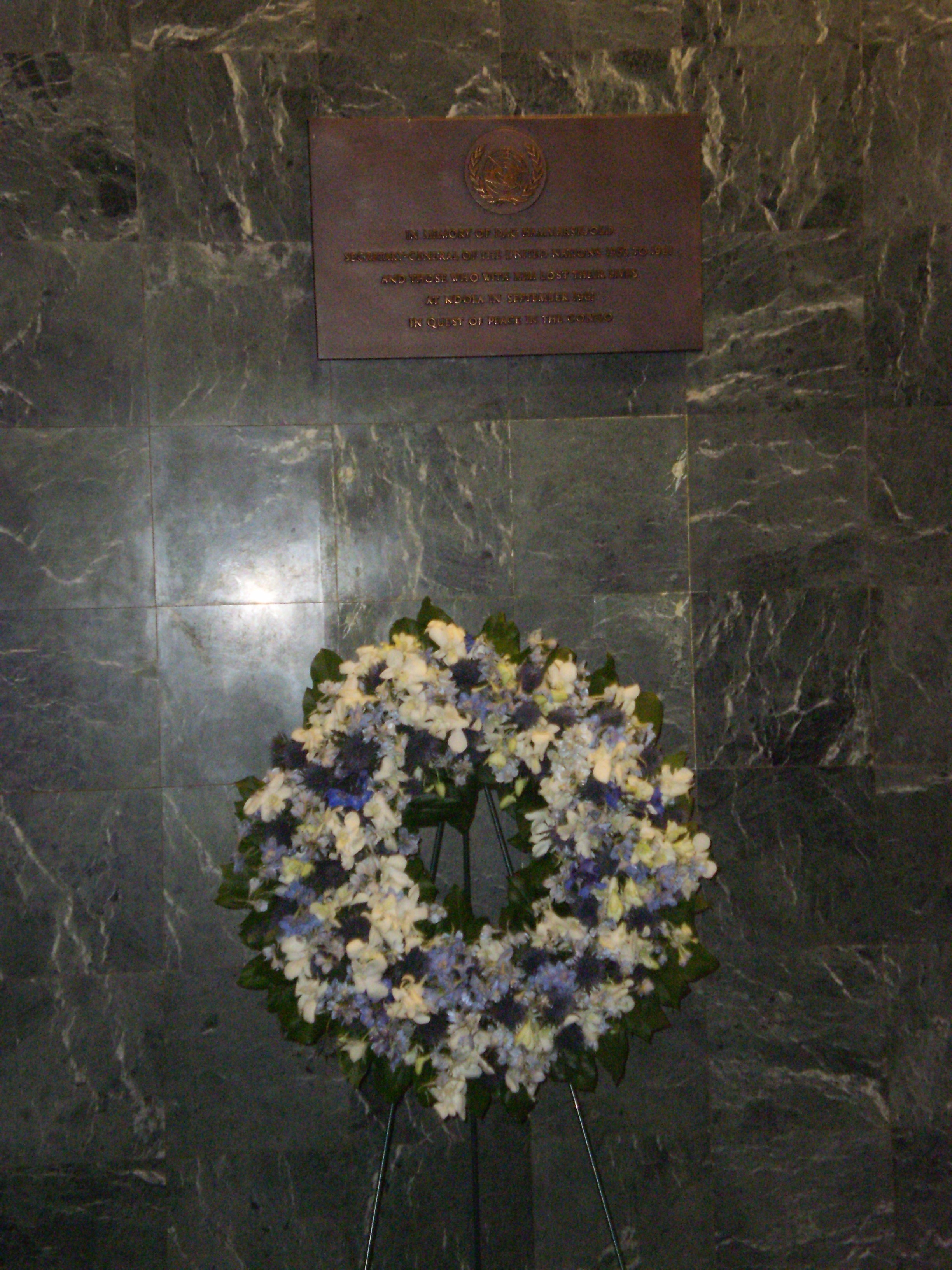 Memorial